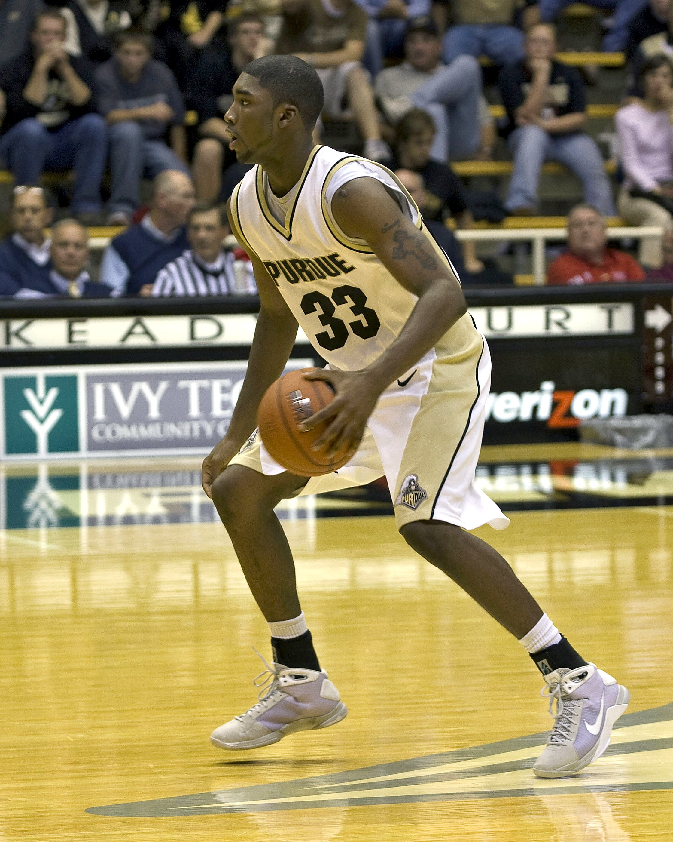 E'Twaun Moore in an exhibition game